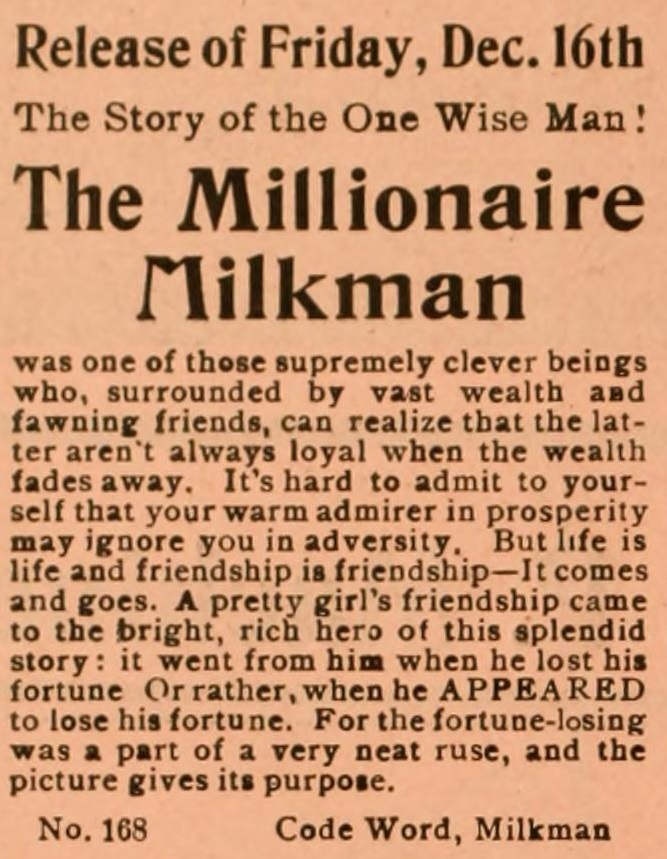 The advertisement for The Millionaire Milkman by the Thanhouser Company. Released in 1910.